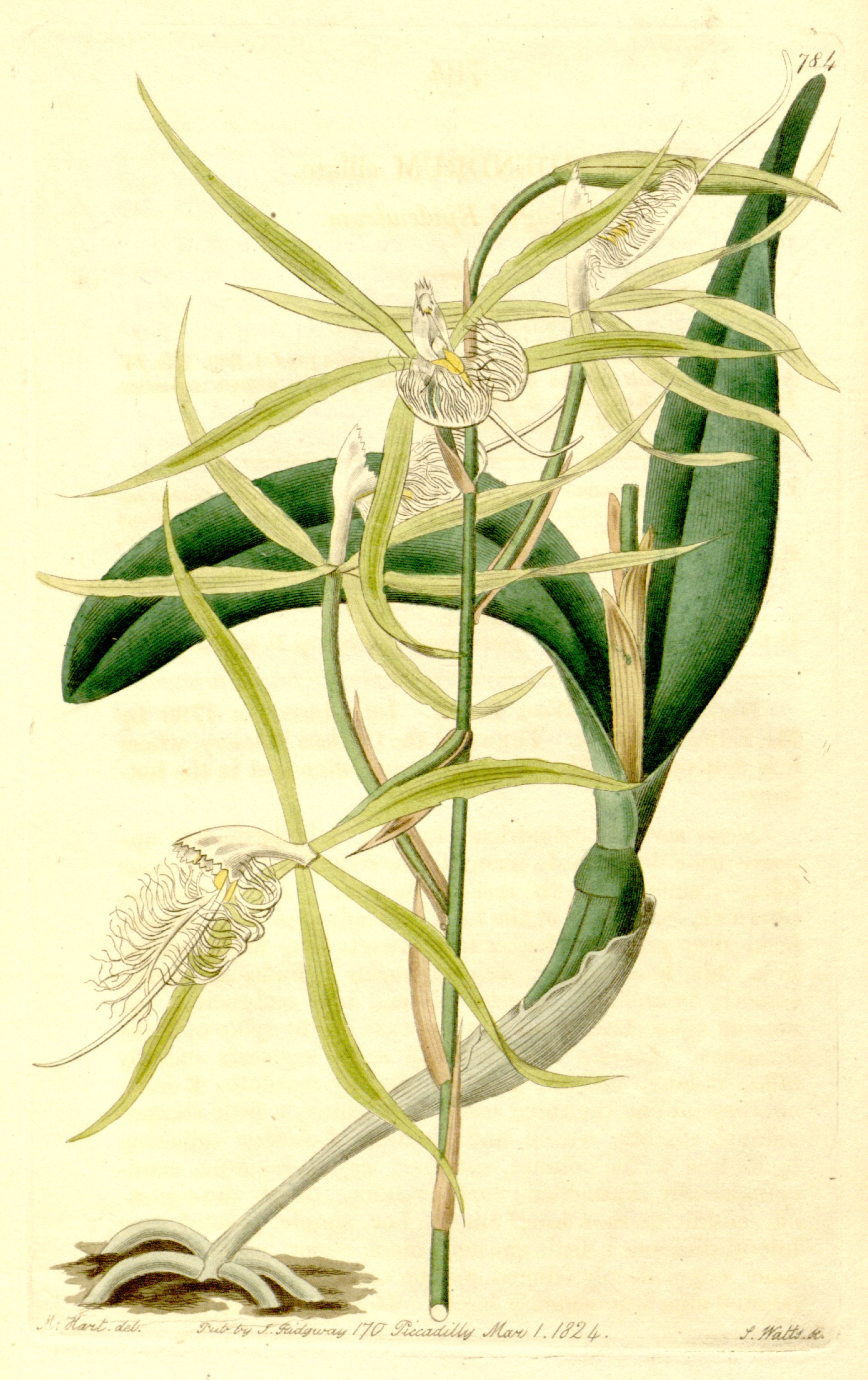 Illustration of Epidendrum ciliare